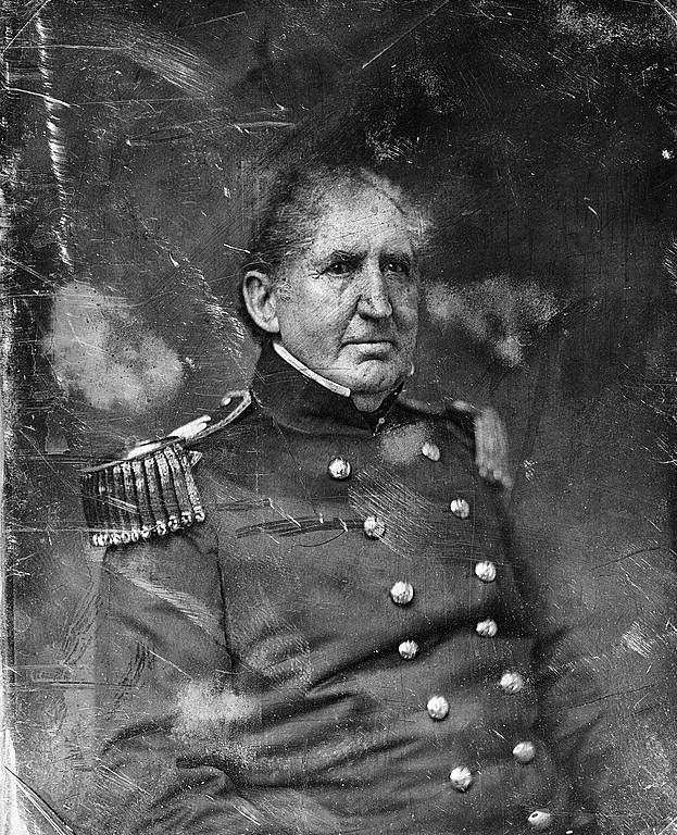 An 1848 daguerreotype of Ichabod B. Crane. Official U.S. military portrait. Colonel, 1st Artillery, U.S. Army in 1848.